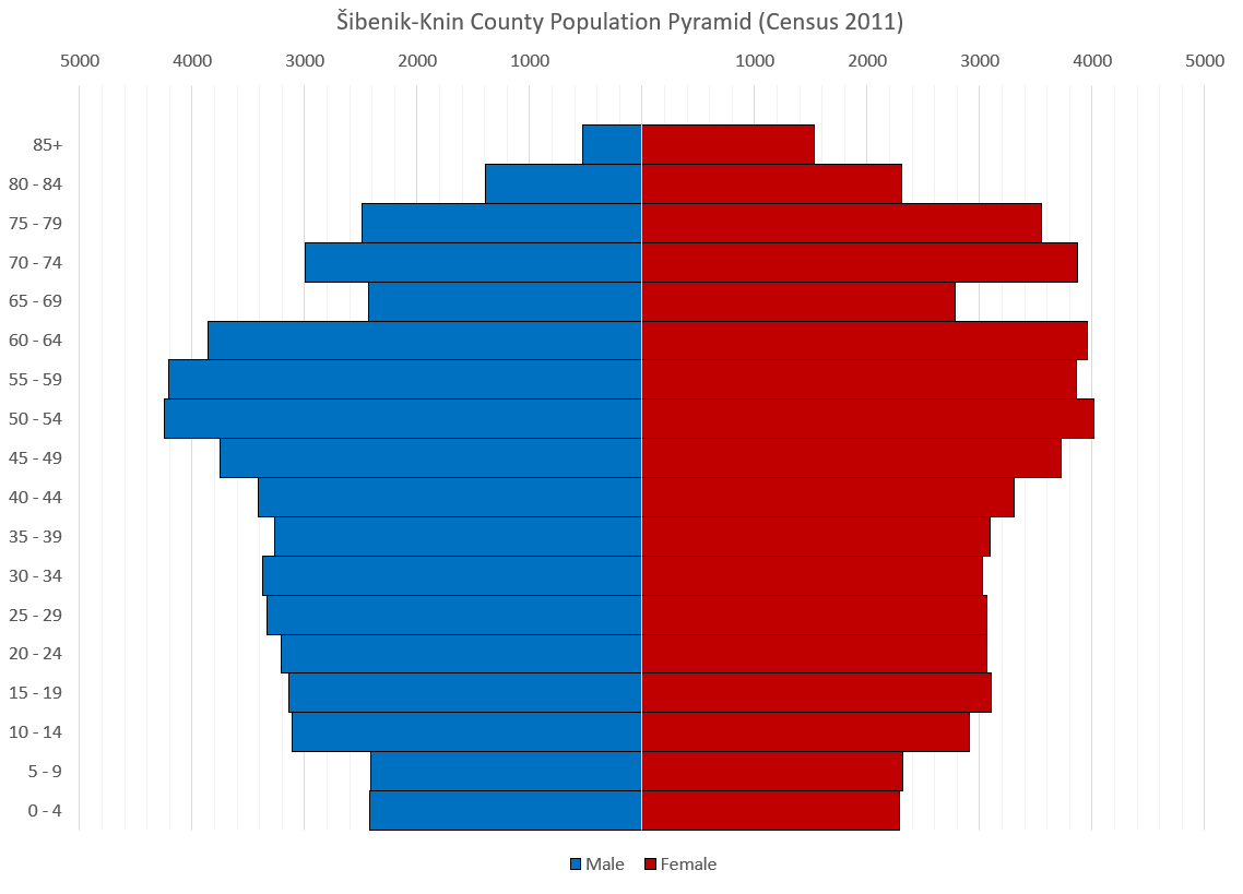 Population pyramid of Šibenik-Knin County. Version in English. Data from 2011 Census; available at